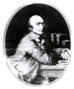 Jean-Claude Delamétherie (or de La Métherie or de Lamétherie). A French naturalist, mineralogist, geologist and paleontologist (1743-1817)